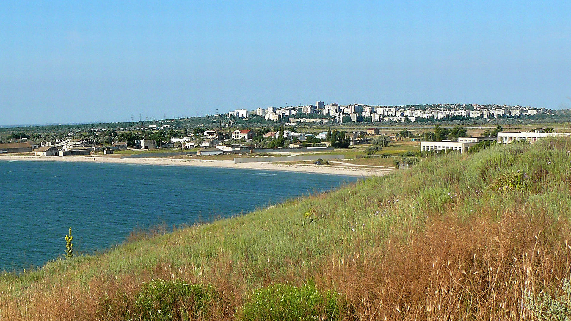 Shcholkine - view from Kazantip headland